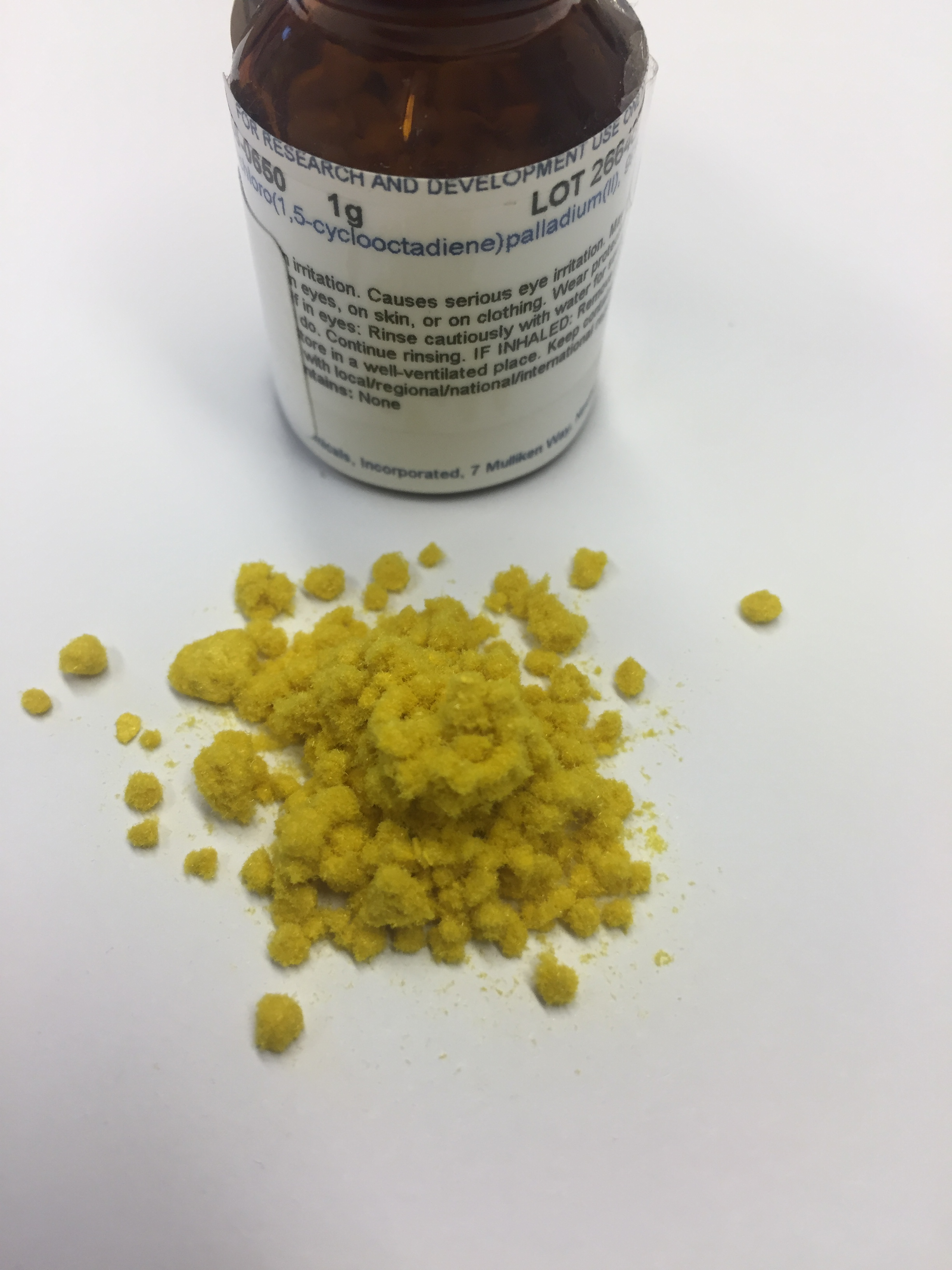 PdCl2(cyclooctadiene)